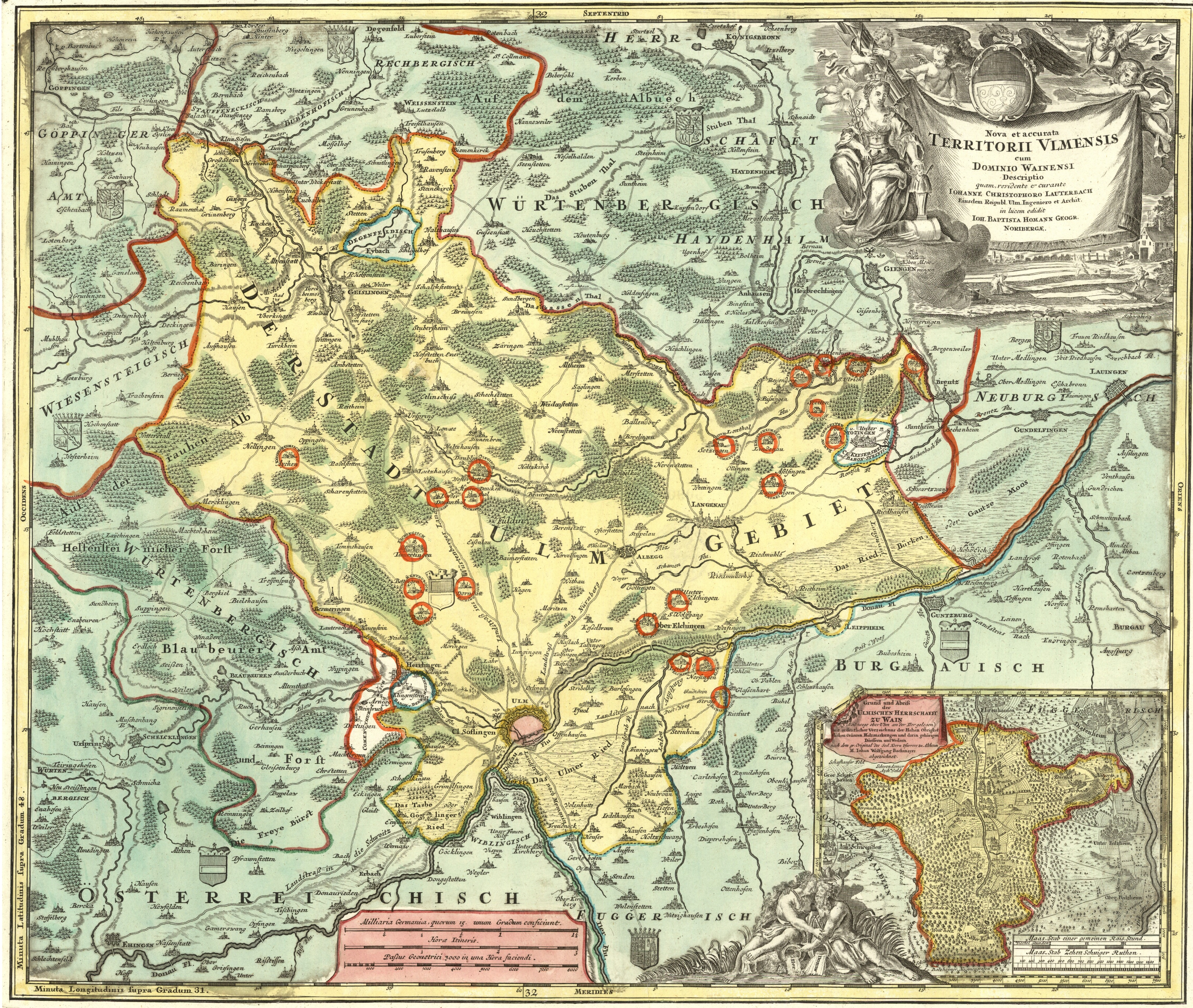 Map showing the territory of the Free Imperial City of Ulm. It was the second largest of the Free Imperial Cities after Nuremberg. Its territory of about 830 sq. kilometers included some 100 towns, villages and hamlets. Geislingen to the northwest and Langenau to the southeast were the two chief cities after Ulm. The inset shows the timber-rich lordship of Wain, a detached territory (exclave) located between Ulm and Biberach to the southwest. The numerous circles that can be seen on the map are farms and villages that do not belong to Ulm but rather to neighboring territories such as the Imperial Abbey of Elchingen. Map published by J. B. Homann, circa 1715.